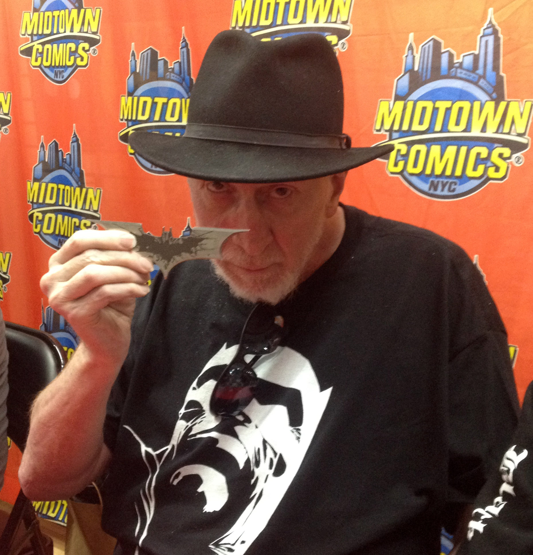 Comics writer/artist Frank Miller holding a Batarang that he has just signed, during an appearance at Midtown Comics Downtown September 17, 2016, the third annual Batman Day, when DC Comics celebrates the creation of the character Batman. This photo was created by Luigi Novi. It is not in the public domain, and use of this file outside of the licensing terms is a copyright violation.